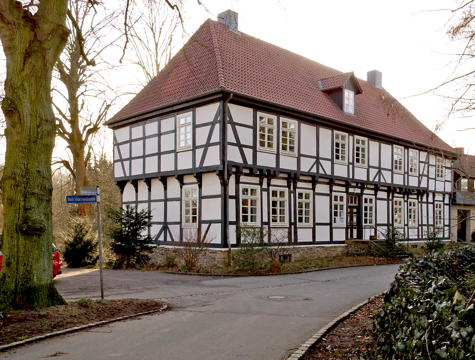 Mansion in town of Kirchlengern, District of Herford, North Rhine-Westphalia, Germany. This is a photograph of an architectural monument.